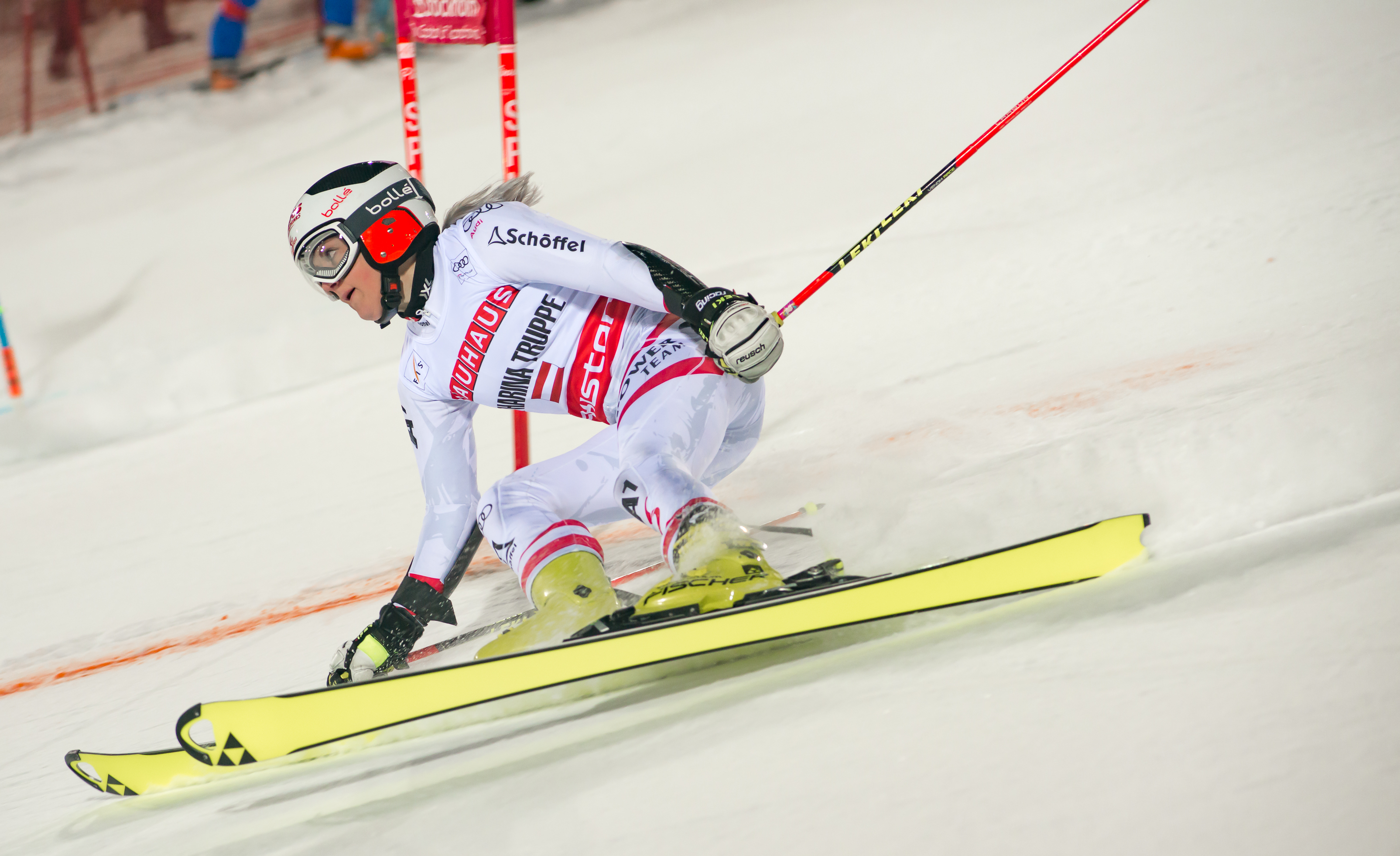 Katharina Truppe in action Photo by Roland Osbeck